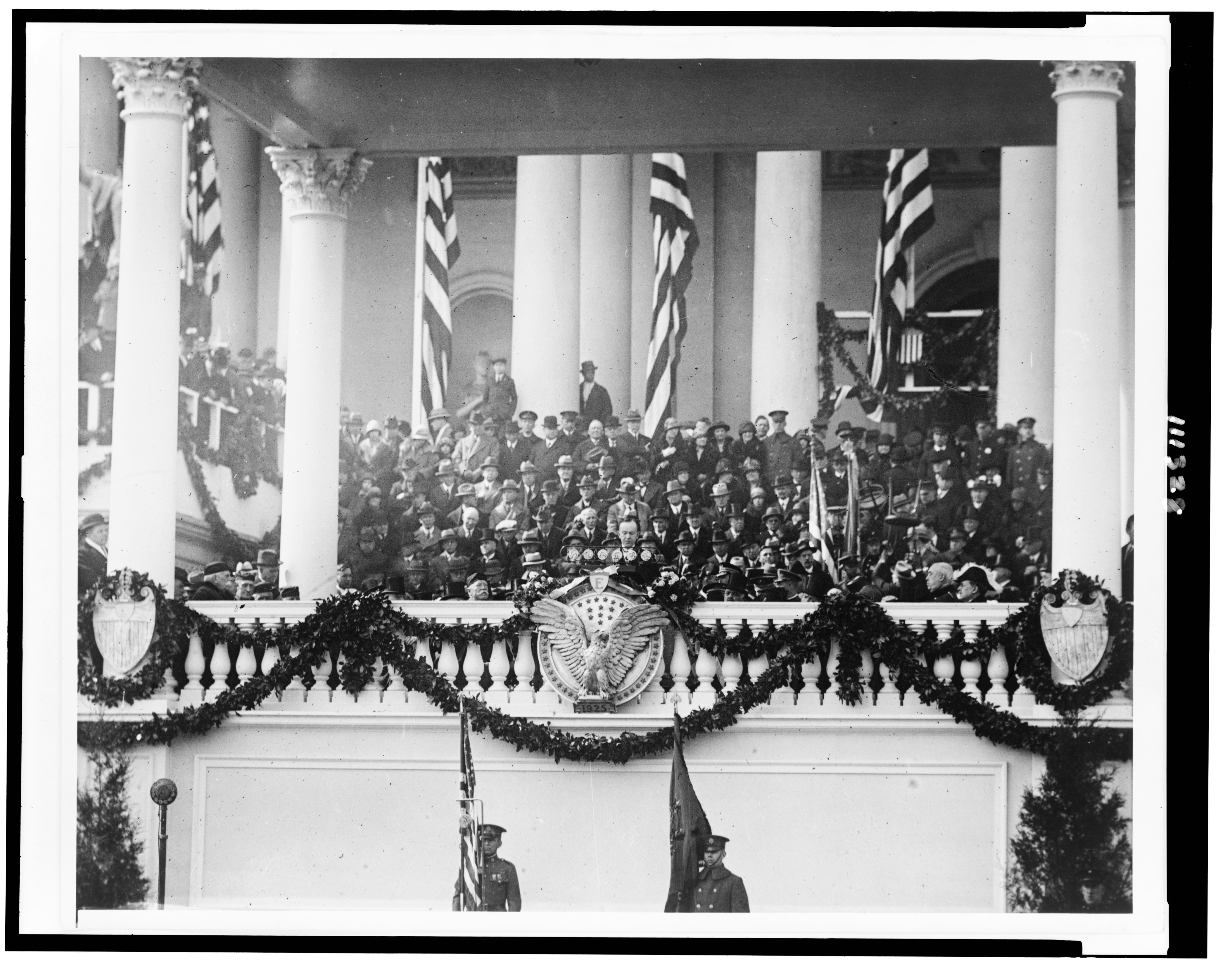 Title: Calvin Coolidge making speech at his inauguration Abstract/medium: 1 photographic print.